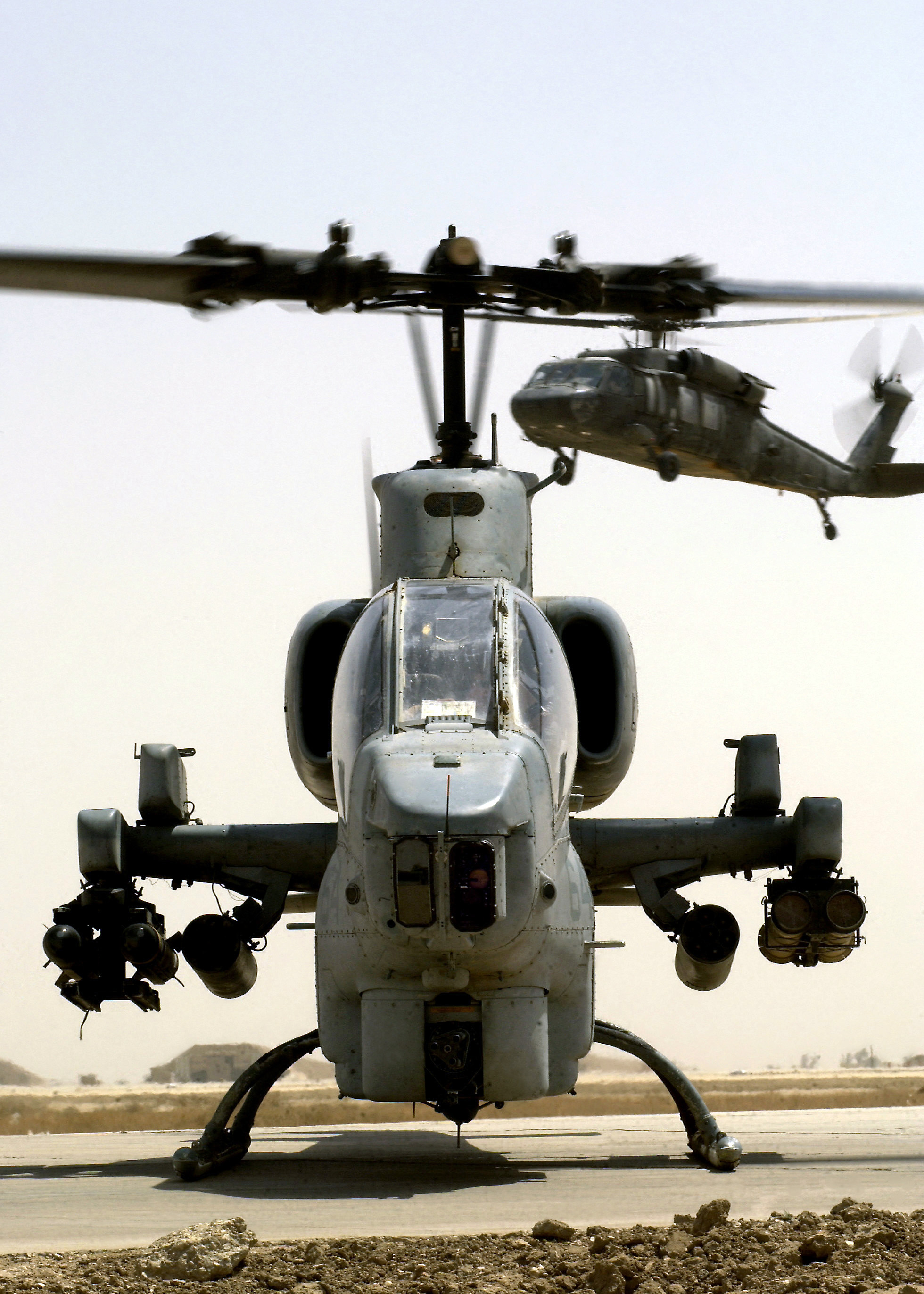 A US Marine Corps (USMC) AH-1W Super Cobra helicopter armed with AGM-114 Hellfire missiles and 2.75-inch Folding Fin Aerial Rockets (FFAR) awaits refueling at a Forward Area Refueling Point (FARP), at Tallil Air Base, Iraq during Operation IRAQI FREEDOM. A US Army (USA) UH-60 Black Hawk helicopter is on approach in the background.